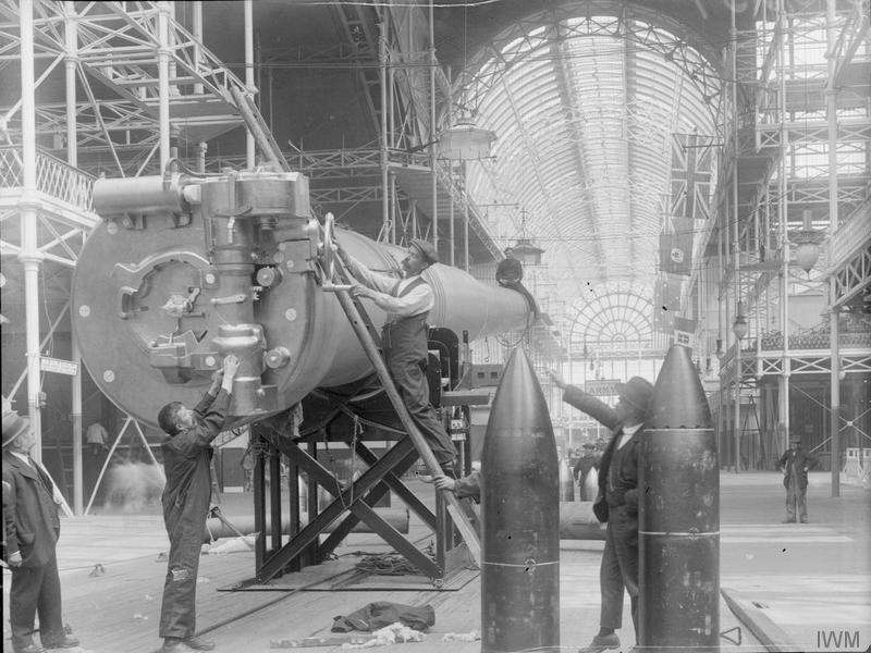 Imperial War Museum Galleries at the Crystal Palace, 1920-1924 An 18 inch naval gun being manoeuvred into position in the Imperial War Museum, Crystal Palace.